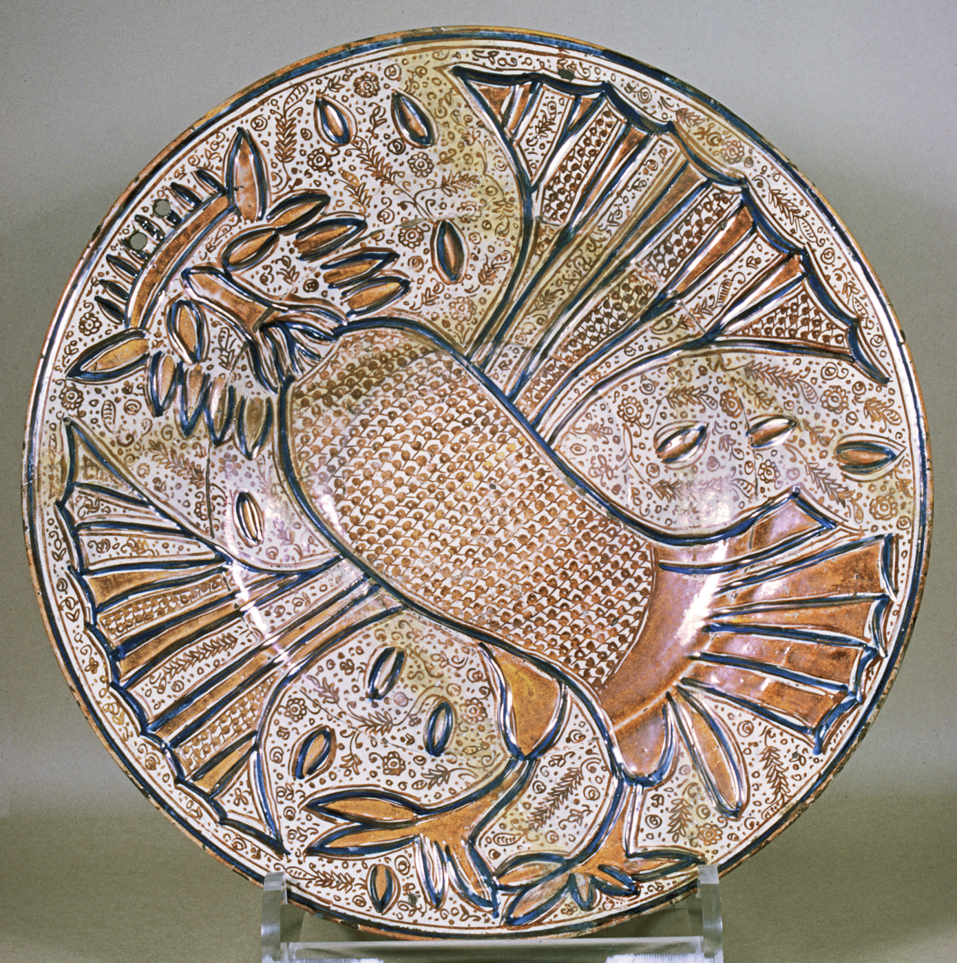 Heraldic animals-such as this fantastical owl wearing a crown-appear widely in Hispano-Moresque pottery, with each center of production developing its own decorative elements. The floral and foliage patterns surrounding the owl, as well as the interlocking lines and circles comprising its torso, were favored during the first half of the 16th century in the town of Manises in the province of Valencia, Spain.